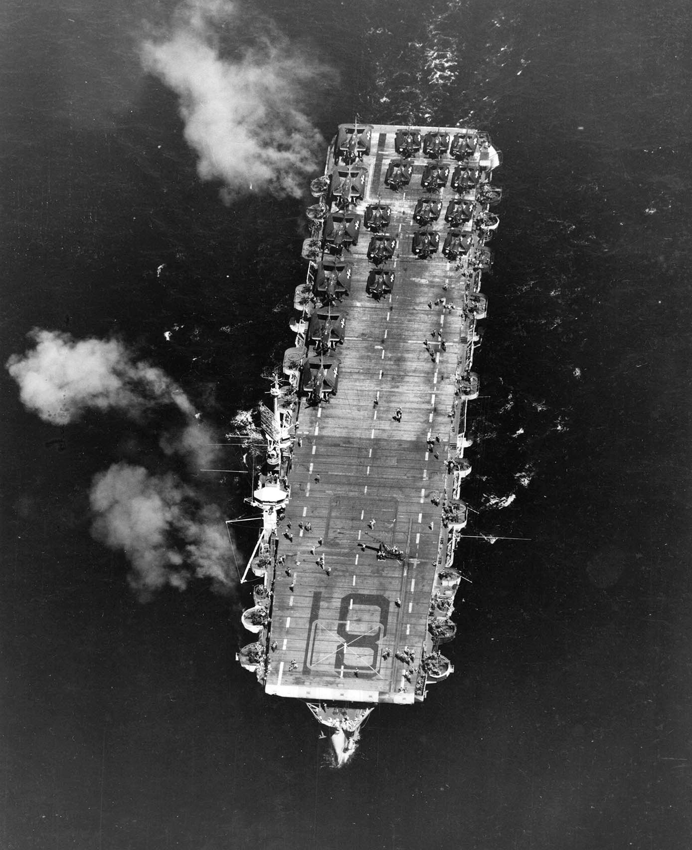 In an overhead shot of the Casablanca-class escort carrier Rudyerd Bay (CVE-81), numerous aircraft of Composite Squadron 96 (VC-96), along with a Karry Krane, are visible.